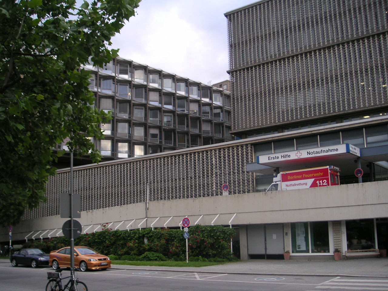 Free University of Berlin, Germany: Dept. of Medicine Charité - University Medicine Berlin (Campus Benjamin Franklin - university hospital - north side).